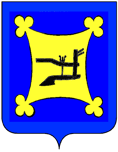 Coat of arms of the municipality of Laurein, South Tyrol.